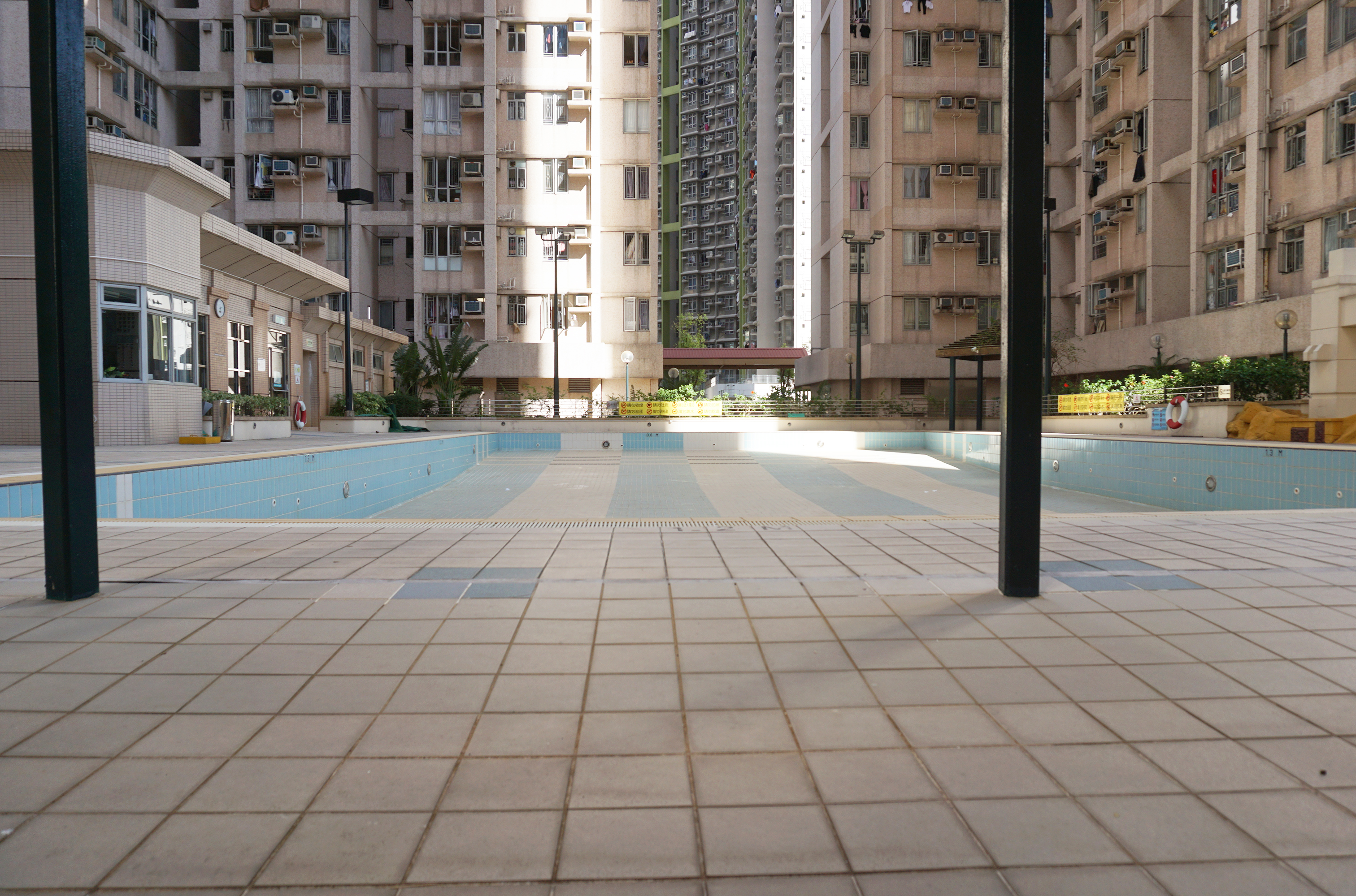 Bauhinia Garden in Tseung Kwan O, Hong Kong.